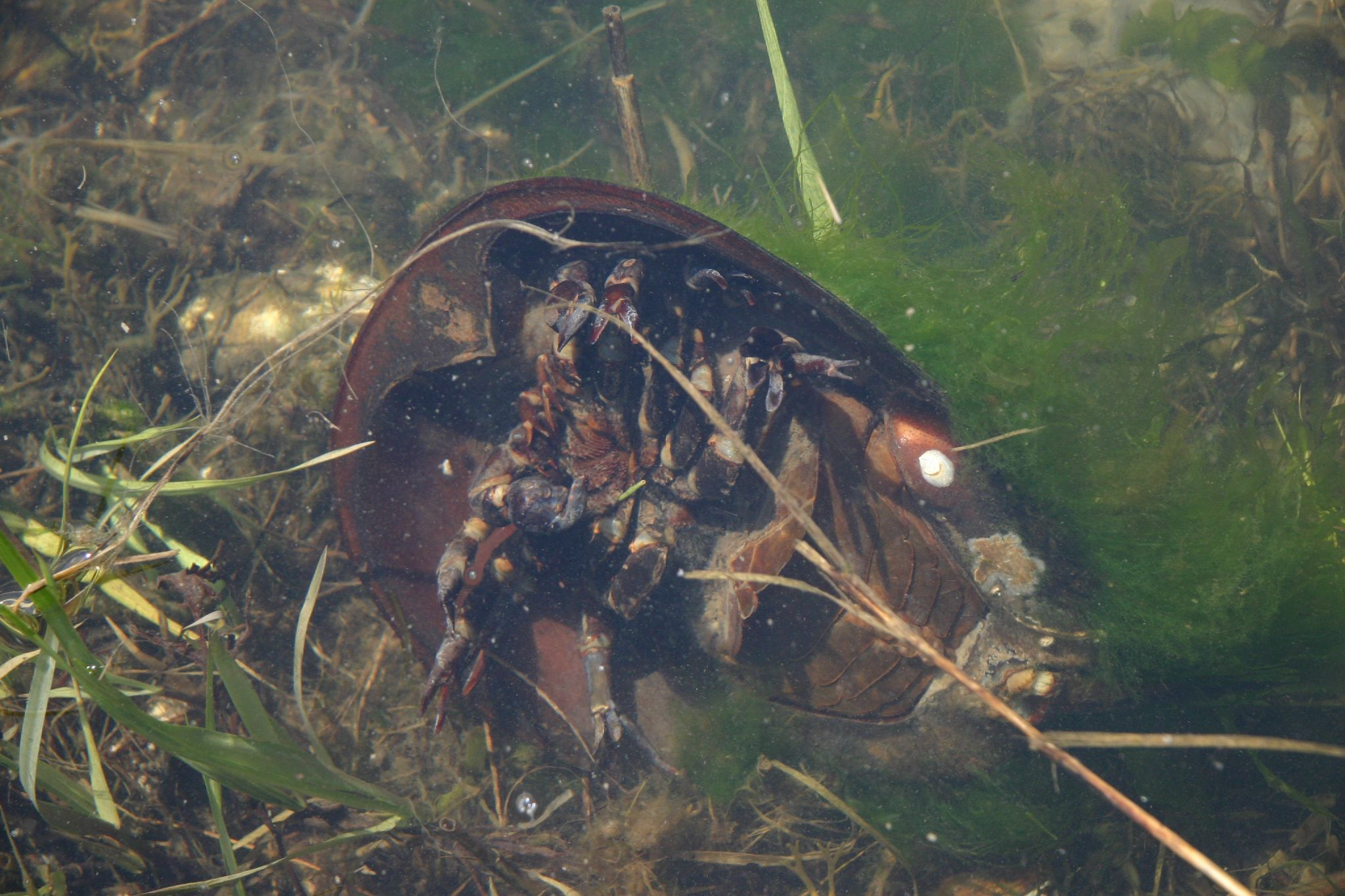 This poor little guy turned himself over and spent about 20 mins trying to flip around. Finally I intervened and got him over.New York - Long Island Trip